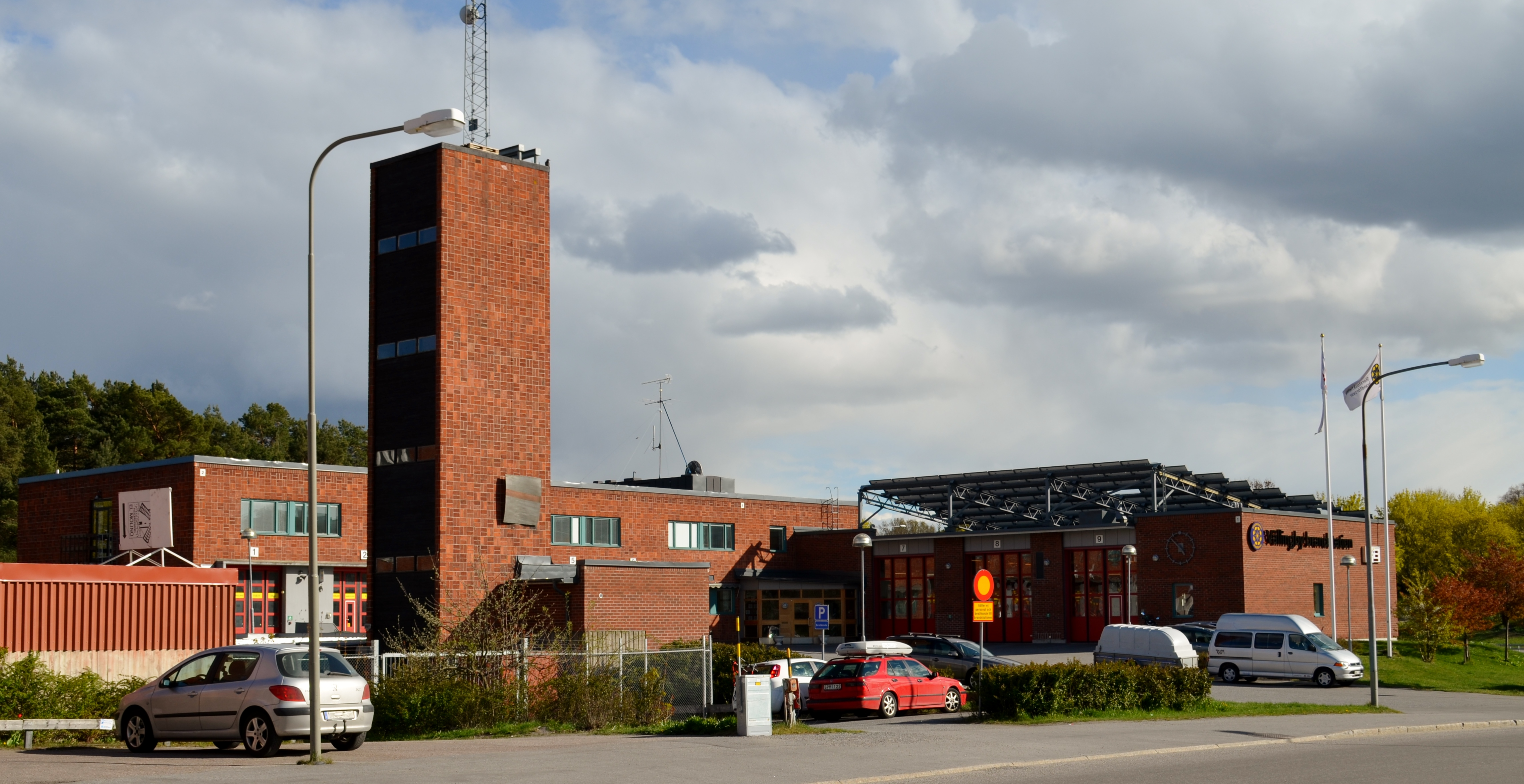 Vaellingby fire station i Stockholm, Sweden.